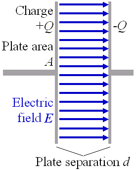 I made this image using Micrografx Designer and Picture Publisher software. I still have an editable source file, so if you think any changes need to be made, drop me a line.